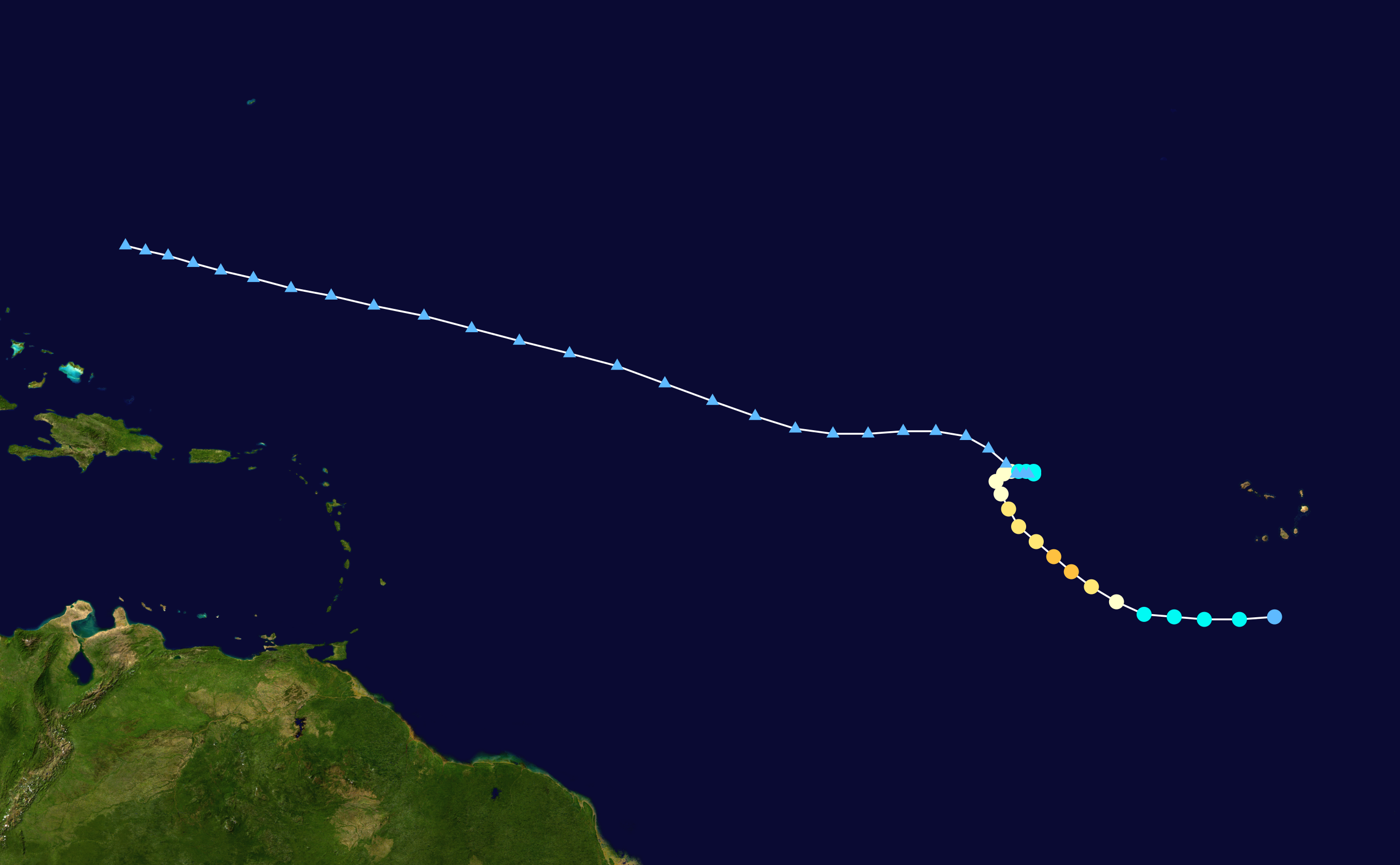 Track map of Hurricane Fred of the 2009 Atlantic hurricane season. The points show the location of the storm at 6-hour intervals. The colour represents the storm's maximum sustained wind speeds as classified in the Saffir–Simpson scale (see below), and the shape of the data points represent the nature of the storm, according to the legend below. Saffir–Simpson scale Tropical depression≤38 mph≤62 km/h Category 3111–129 mph178–208 km/h Tropical storm39–73 mph63–118 km/h Category 4130–156 mph209–251 km/h Category 174–95 mph119–153 km/h Category 5≥157 mph≥252 km/h Category 296–110 mph154–177 km/h Unknown Storm type Tropical cyclone Subtropical cyclone Extratropical cyclone / Remnant low / Tropical disturbance / Monsoon depression